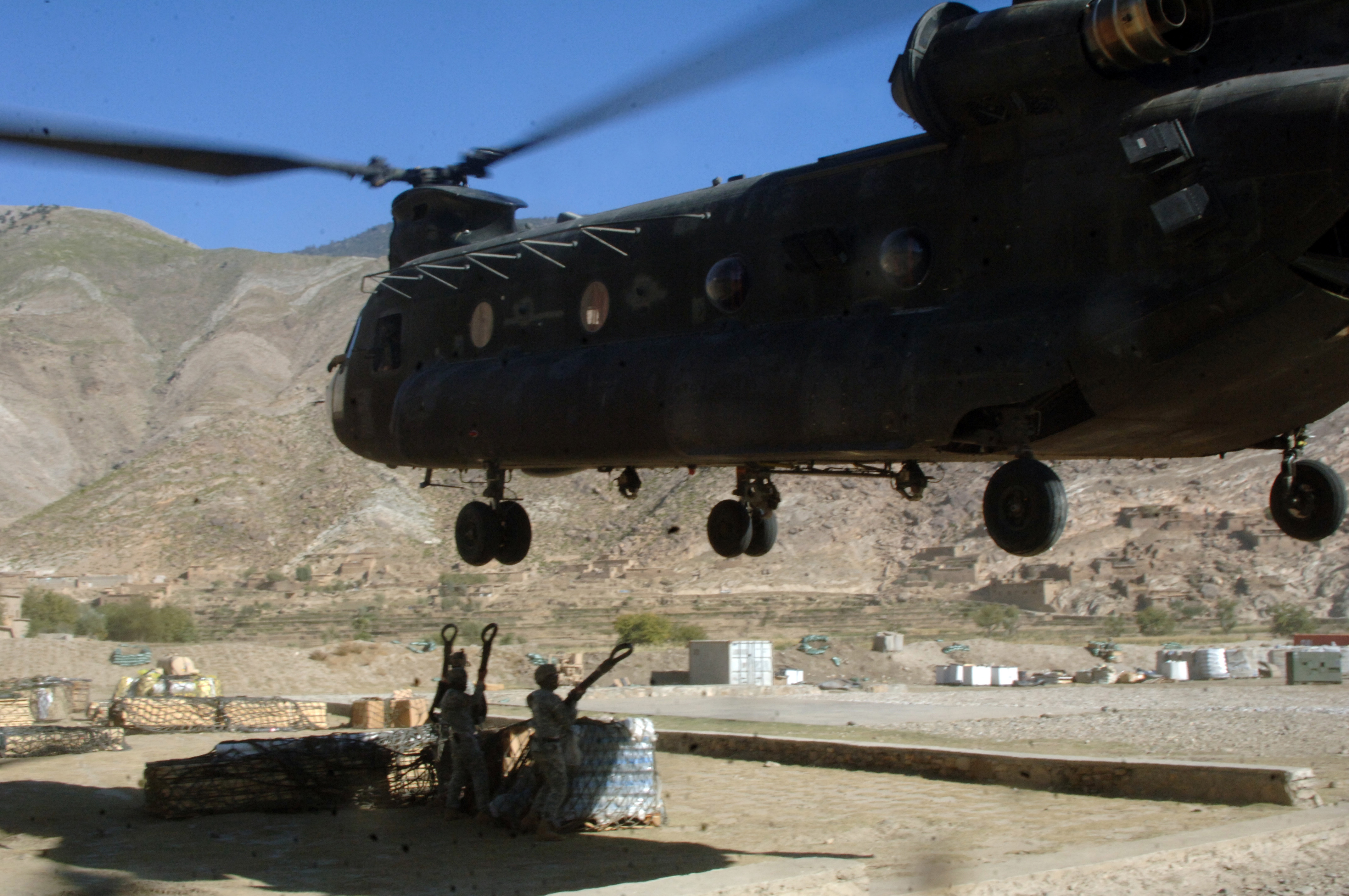 Soldiers from 2/503rd Parachute Infantry Regiment, 173rd Airborne Brigade, prepare to hook up sling loads to a CH-47 (Chinook) Helicopter at Forward Operating Base Blessing, Afghanistan, Oct. 28.